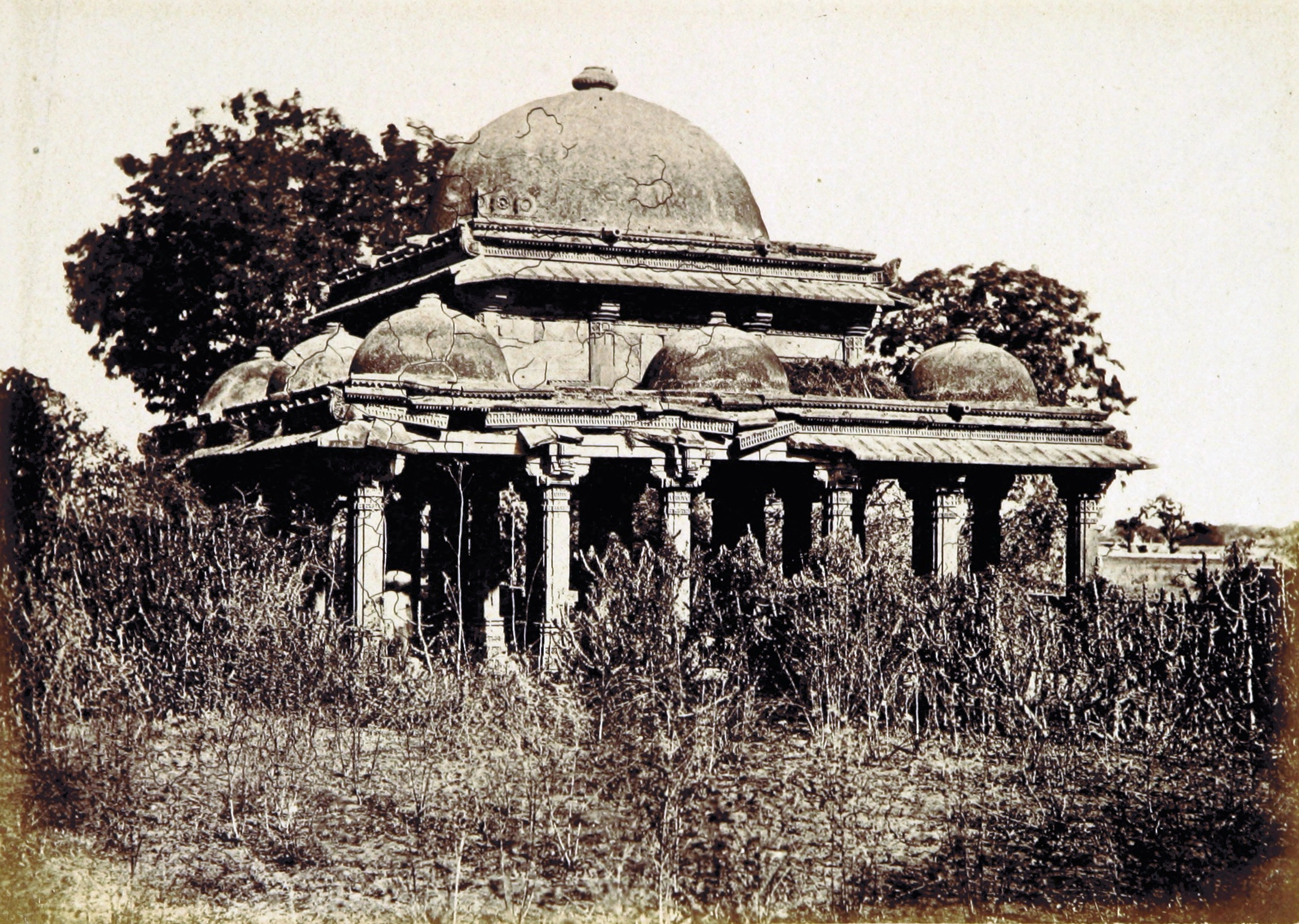 Image taken from: Title: "Architecture at Ahmedabad, the Capital of Goozerat, photographed by Colonel Biggs, ... With an historical and descriptive sketch, by T. C. H., ... and architectural notes by J. Fergusson, etc" Author: HOPE, Theodore Cracraft - Sir, K.C.S.I Contributor: BIGGS, Thomas. Contributor: FERGUSSON, James - Architect Shelfmark: "British Library HMNTS 10057.f.17.", "British Library OC V 6665" Page: 291 Place of Publishing: London Date of Publishing: 1866 Issuance: monographic Identifier: 001730119 Note: The colours, contrast and appearance of these illustrations are unlikely to be true to life. They are derived from scanned images that have been enhanced for machine interpretation and have been altered from their originals. If you wish to purchase a high quality copy of the page that this image is drawn from, please order it here. Please note that you will need to enter details from the above list - such as the shelfmark, the page, the book's volume and so on - when filling out your order. Following this or the link above will take you to the British Library's integrated catalogue. You will be able to download a PDF of the book this image is taken from, as well as view the pages up close with the 'itemViewer'. Click on the 'related items' to search for the electronic version of this work. Click here to see all the illustrations in this book and click here to browse other illustrations published in books in the same year. Please click on the tags shown on the right-hand side for other ways to browse the illustrations.